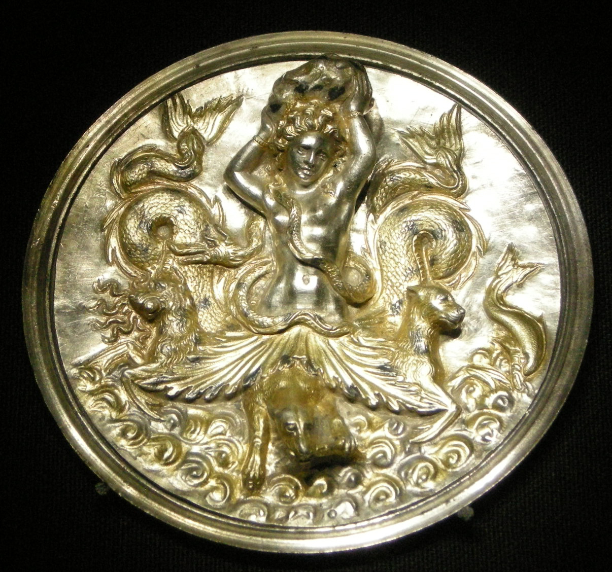 read filename please (it)